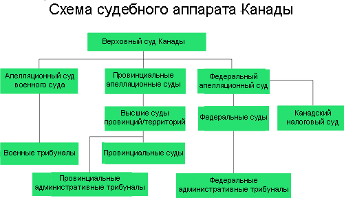 Based on file